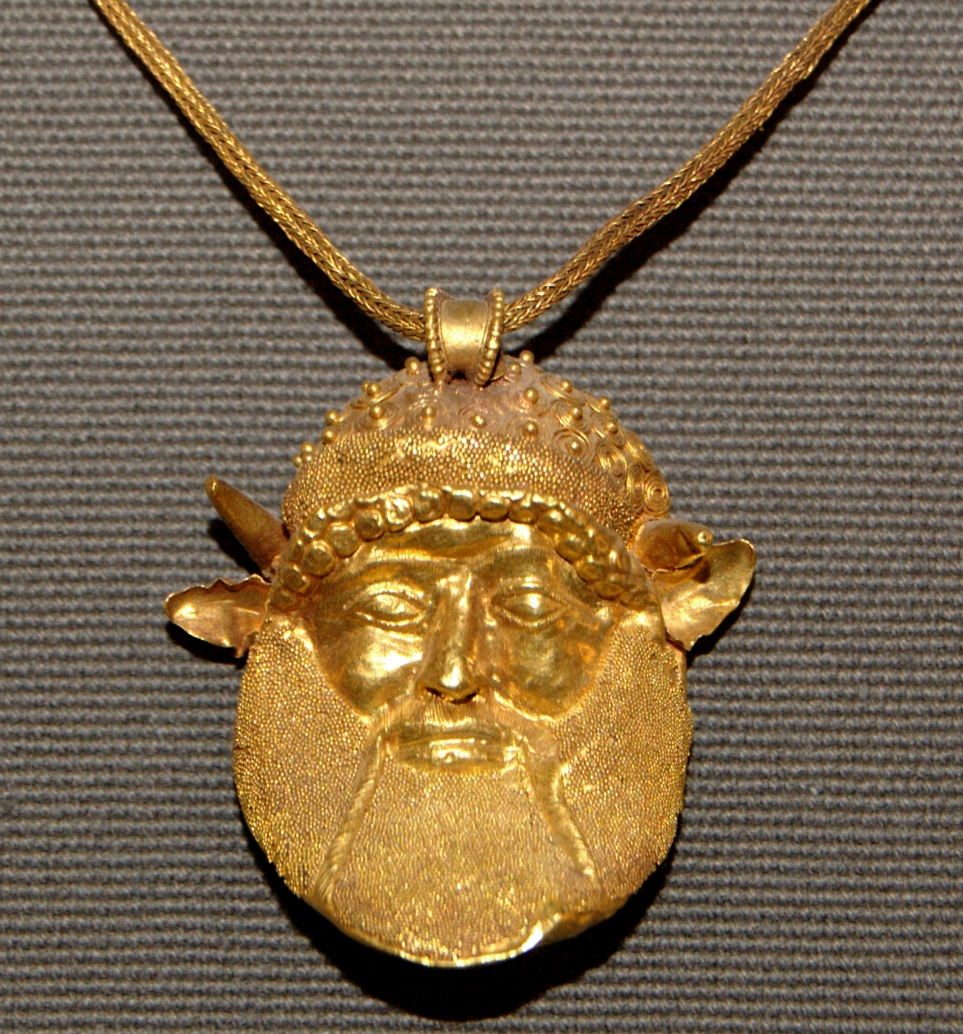 Achelous head. Pendentive of an Etruscan gold necklace, ca. 480 BC. From Chuisi?